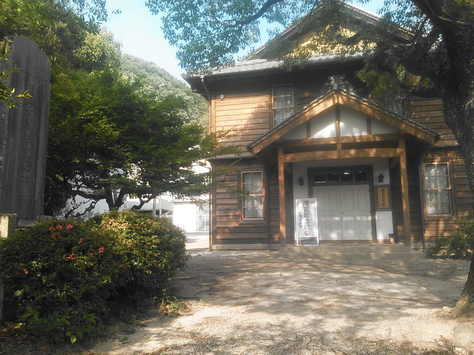 Junsei Memorial house at Junsei Educational Institution. Raikyuji-cho, Takahashi-city, Okayama, Japan.